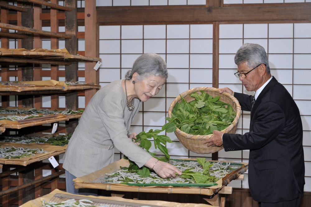 Empress Michiko feeds mulberry leaves to silkworms at the sericulture centre in the Imperial Palace Grounds